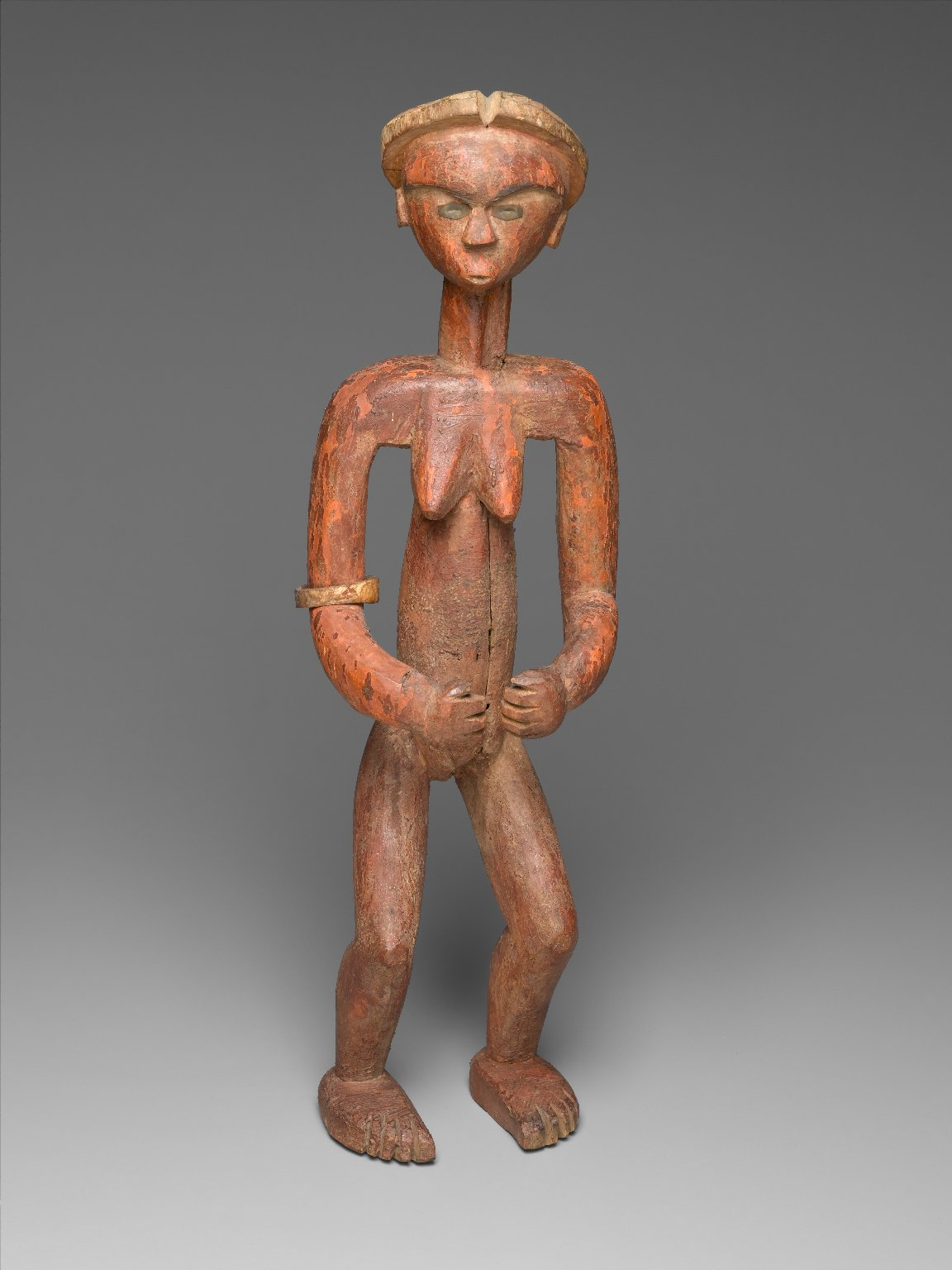 Wooden standing female figure originally thought to be painted with red (tukula) wood powder (pigment tested by Jean Portell 1984-1985. Tested as red lead. Report published by Canadian Conservation Institute). The legs are slightly bent forward, feet apart, arms away from sides and bent with hands held in front of torso. A separate thin wooden bracelet has been placed on right arm. The forehead is slightly curved and facial area slightly recessed. The neck is long and tubular. The eyes consist of applied black colored metal pieces that are cut out in the centers. Mouth is small and protrudes. Ears are circular. The coiffure is like a flat cap with a cleavage on the front rim; the back is composed of irregular grooves. CONDITION: Red paint wearing. Check extending from underneath left breast the length of the torso. A portion of left front side of neck missing and a void at base. Part of pubic area void. Figure is mounted on a modern black metal stand. Note: Surface was stabilized by Conservation Department 3/75.